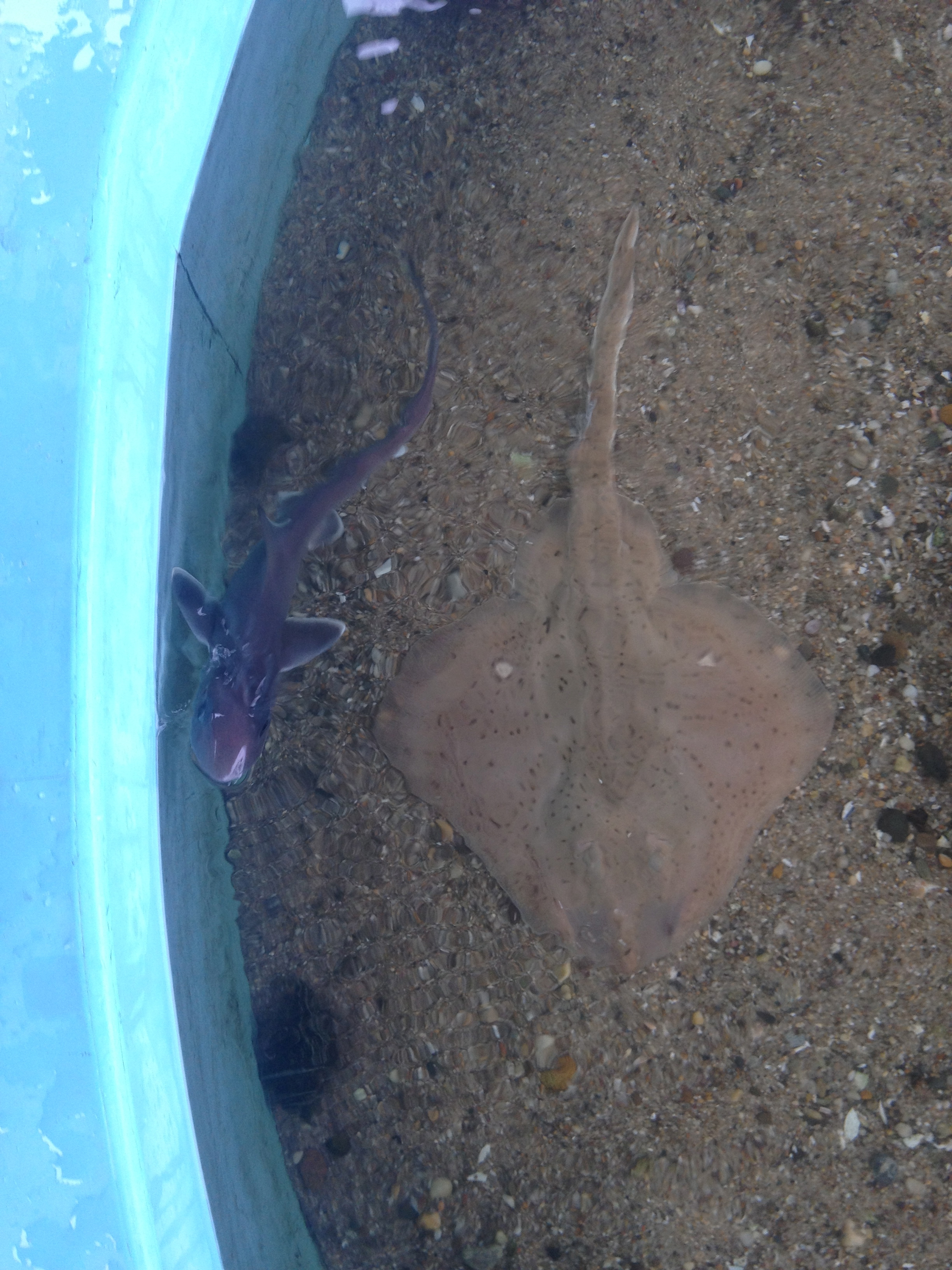 Shark and Skate at MMA aquarium in Nantucket, Massachusetts.